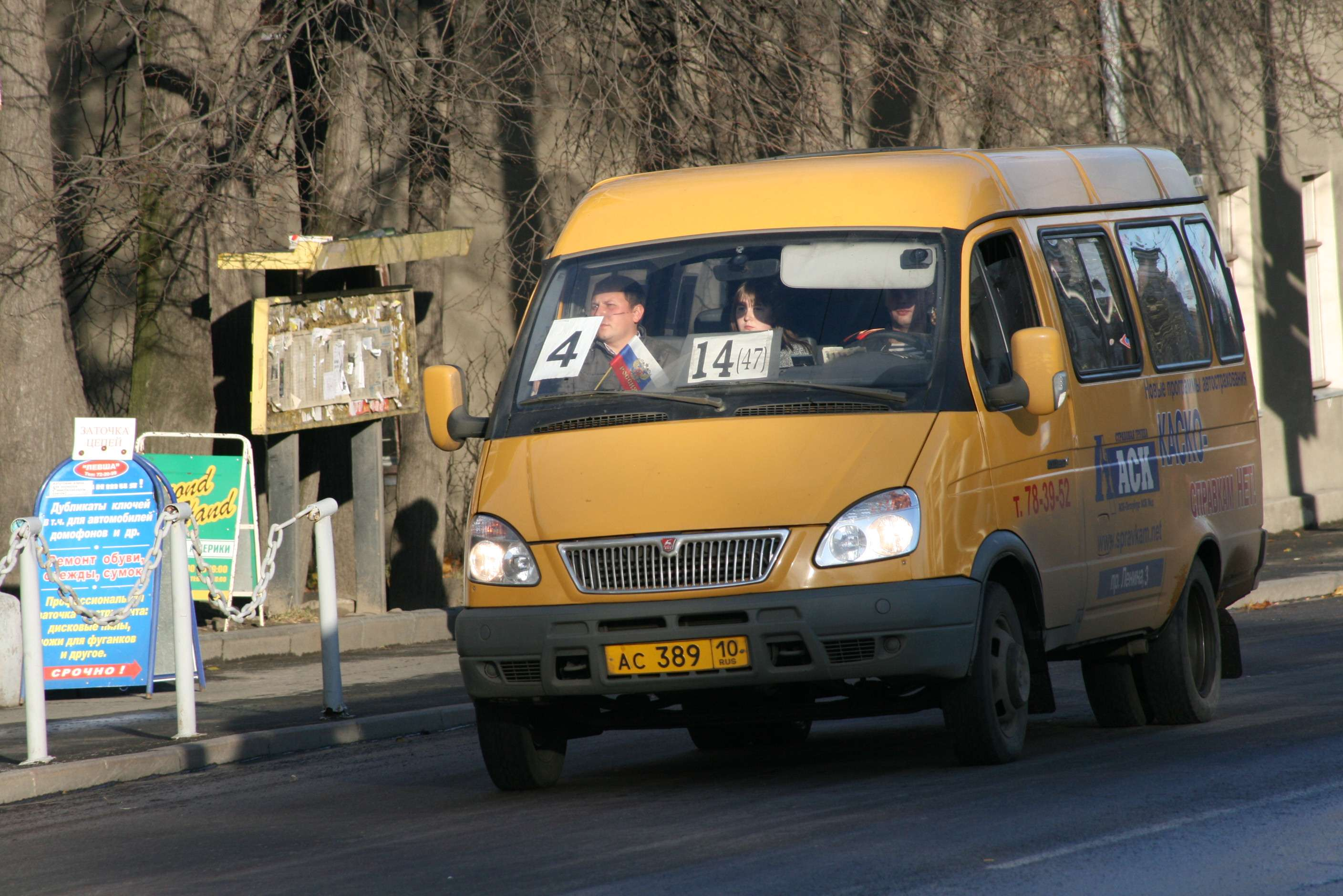 Petrozavodsk traffic microbus GAZelle (reg. AC 389 10).